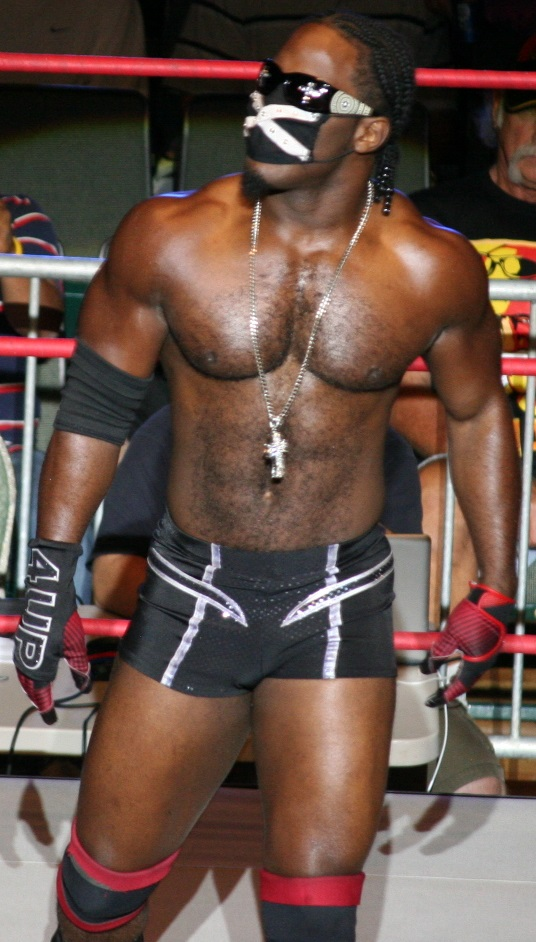 Professional wrestler D'Angelo Dinero at a TNA live event